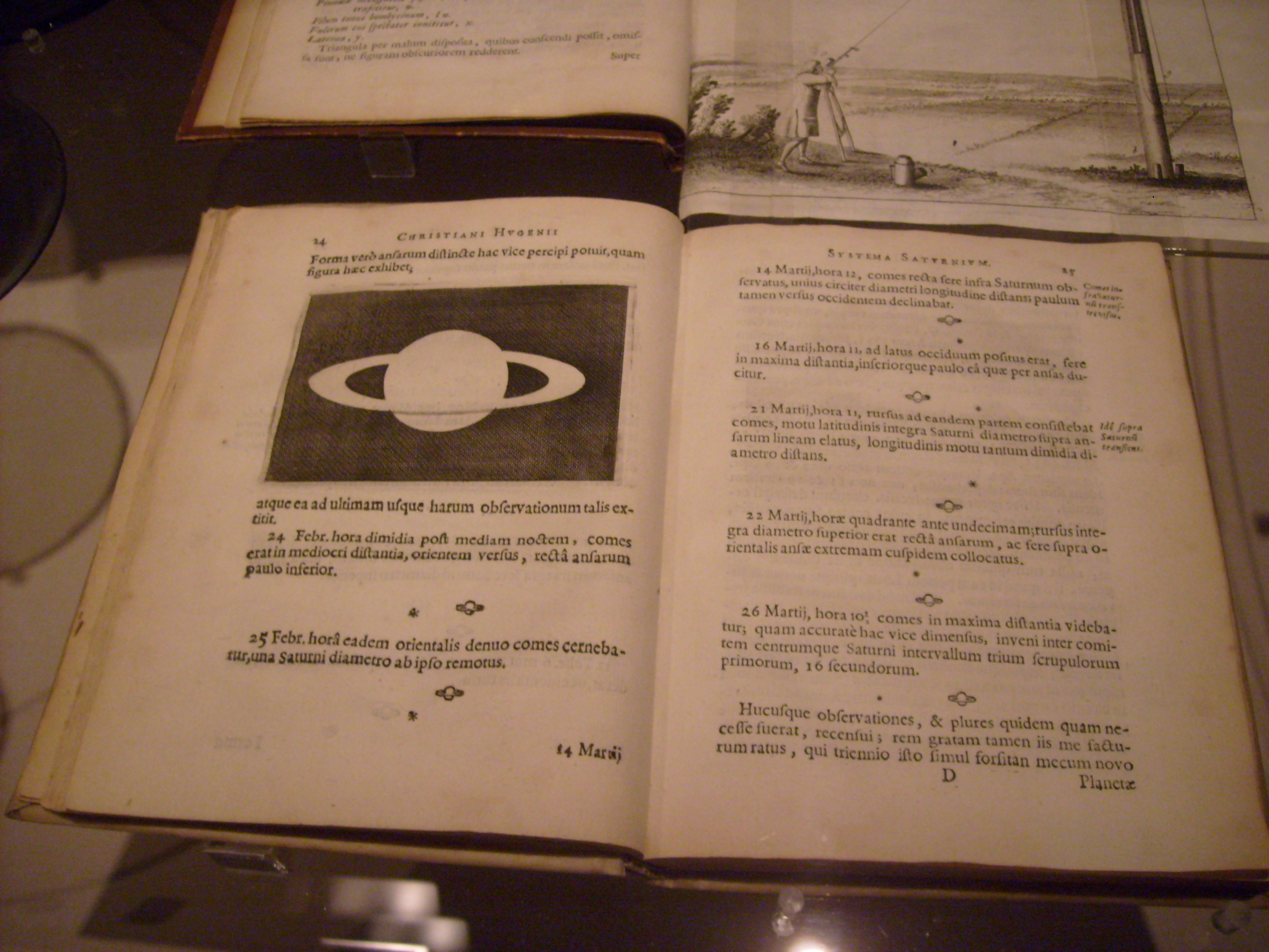 Book "Systema Saturnium" by Christiaan Huygens in which he describes the planet Saturn. It contains the first precise description of its rings among other things. Den Haag, 1659 Museum Boerhaave, Leiden